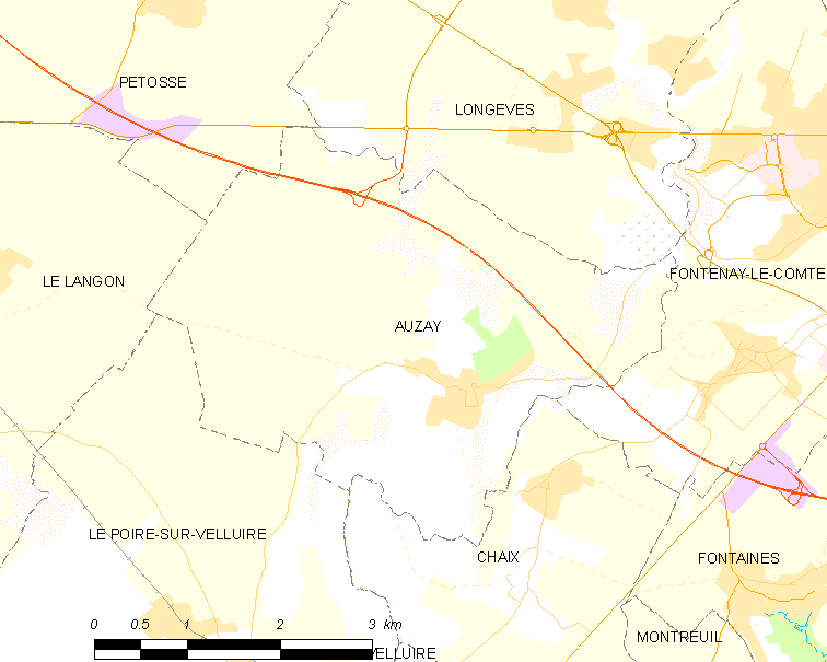 Map of French municipality Auzay